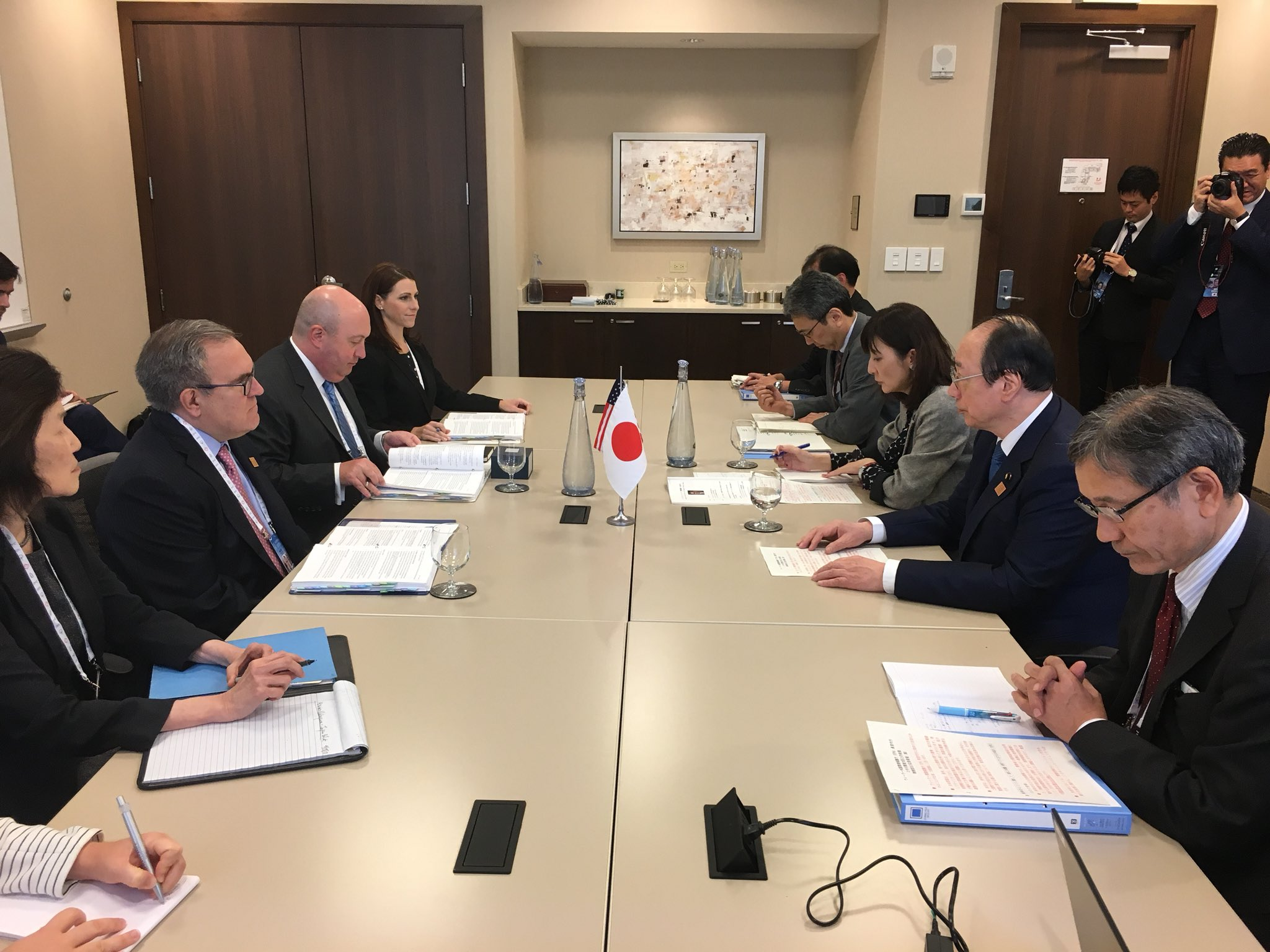 Enjoyed my first bilateral meeting with @Nakagawa_Tokyo at the G7 Environment Ministers Meeting in Halifax. We discussed ways the U.S. and Japan can work together to improve air quality, address mercury management, promote innovation, and reduce marine litter.